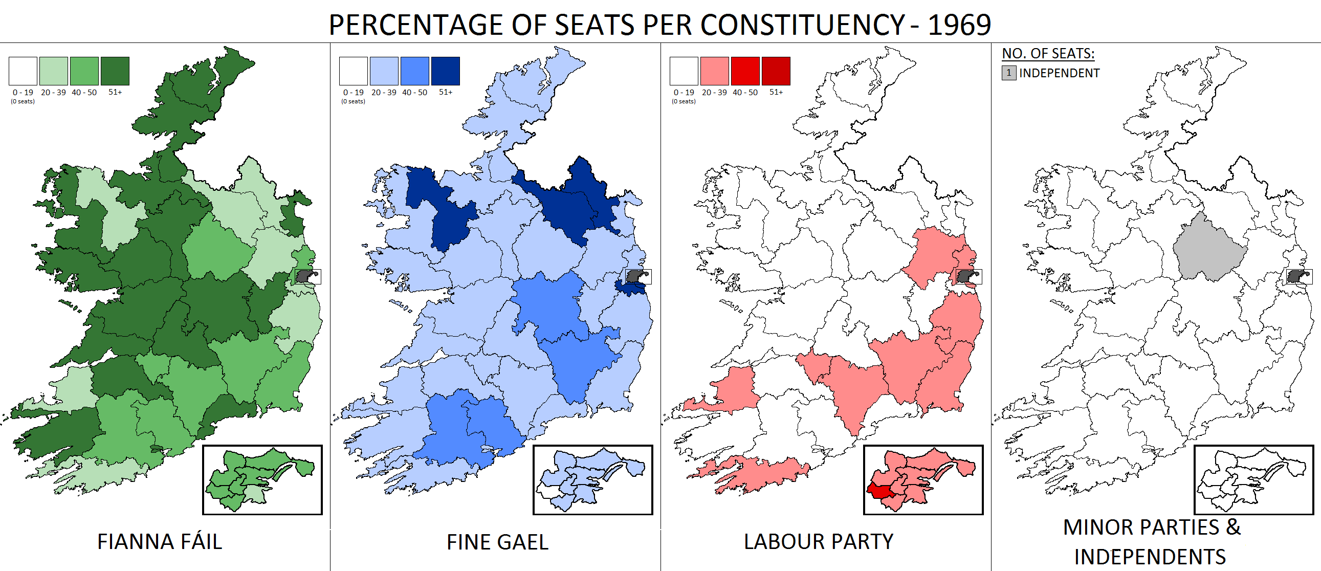 Graphical representation of the 1969 Irish general election results. Created by myself using data from Wikipedia and literary sources.